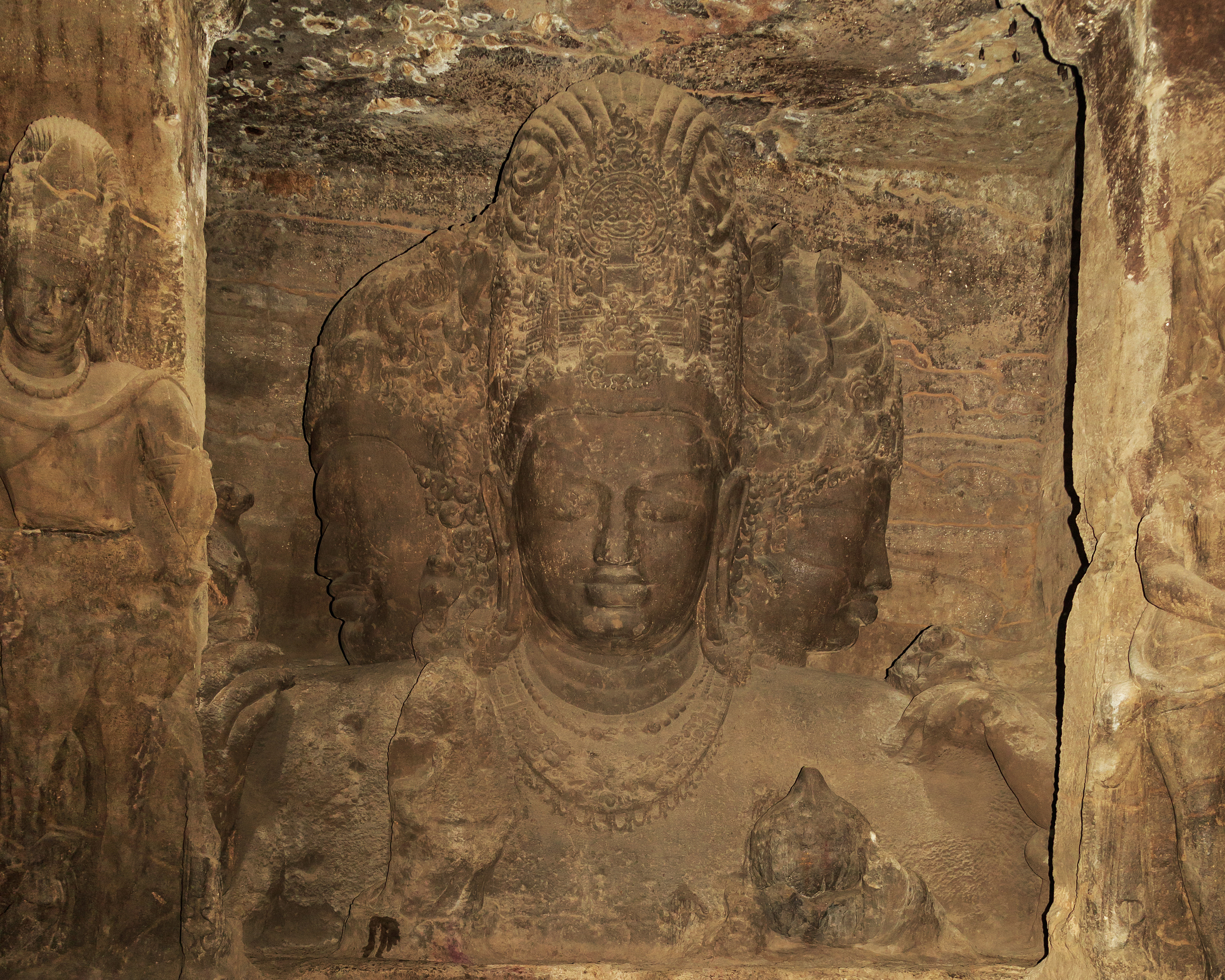 Inside Elephanta Caves. Elephanta Island, Maharashtra, India.